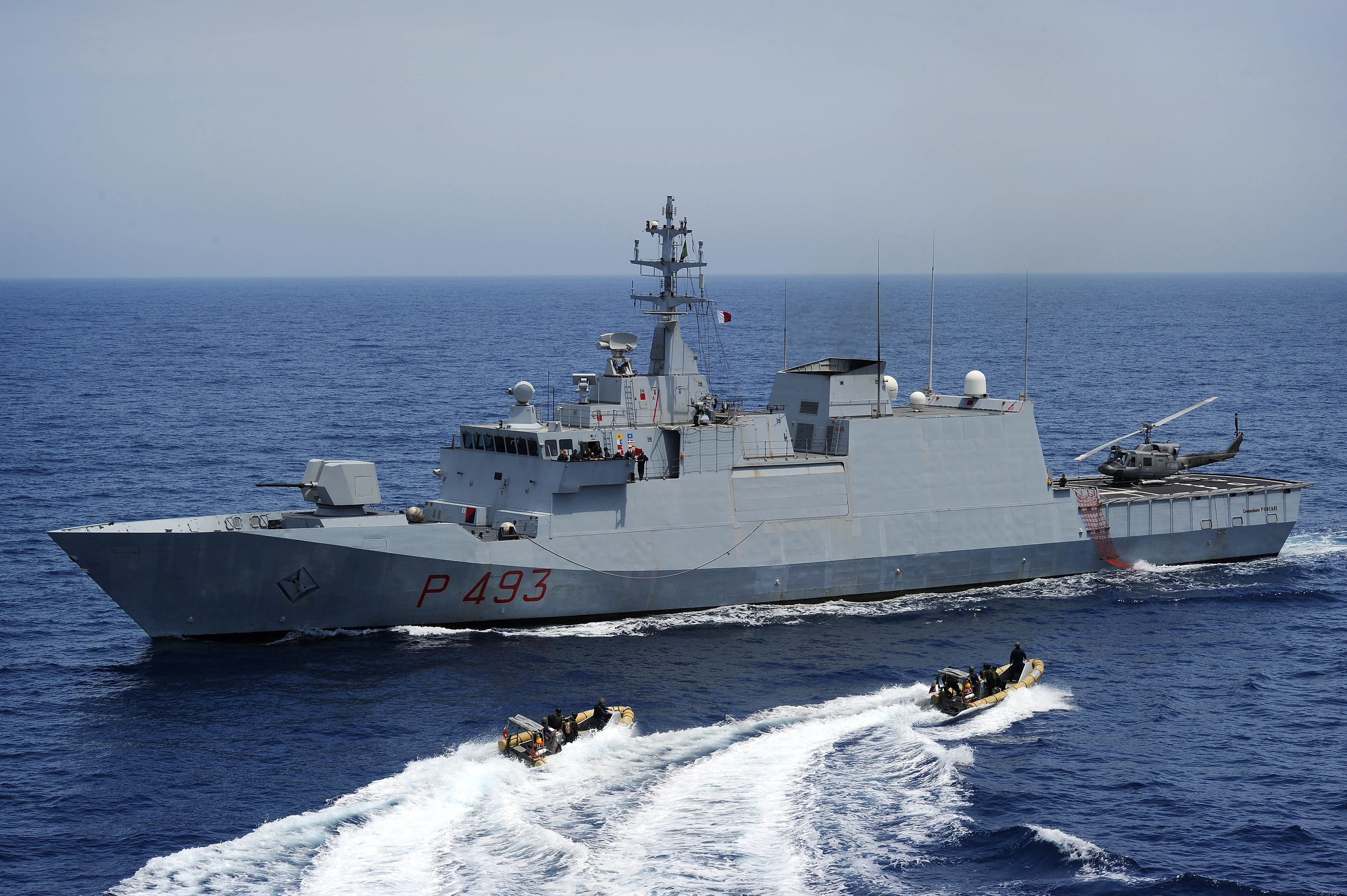 MEDITERRANEAN SEA (May 28, 2010) An Italian Navy visit, board, search and seizure team returns to the Italian Navy offshore patrol vessel ITS Comandante Foscari (P-493) after completing inspections aboard the Military Sealift Command container and roll-on/roll-off ship USNS LCPL Roy H. Wheat (T-AK 3016) during the at sea portion of exercise Phoenix Express 2010 (PE 10). PE-10 is a two-week exercise designed to strengthen maritime partnership and enhance stability in the region through increased interoperability and cooperation among partners from Africa, Europe and United States. (U.S. Navy photo by Mass Communication Specialist 2nd Class Jimmy C. Pan/Released)